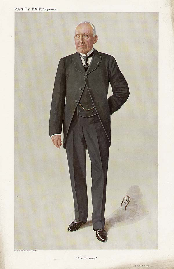 Caricature of Reginald Welby, 1st Baron Welby (1832-1915). Caption read "The Treasury".